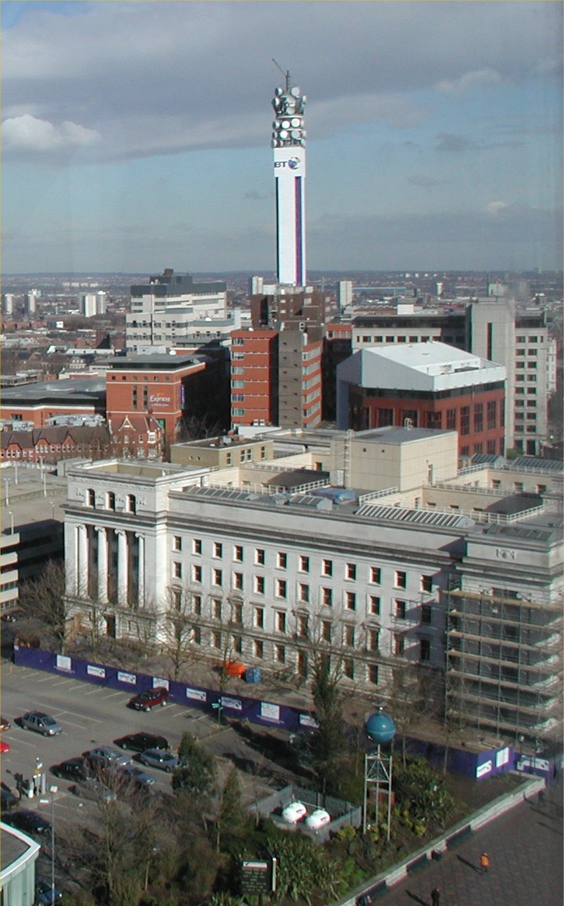 BT Tower and Baskerville House (western side), Birmingham, England. Photographed by me 23 February 2004 from the Birmingham Wheel Mk I (ferris wheel). (Note: the car park later became the site for the Library of Birmingham.)